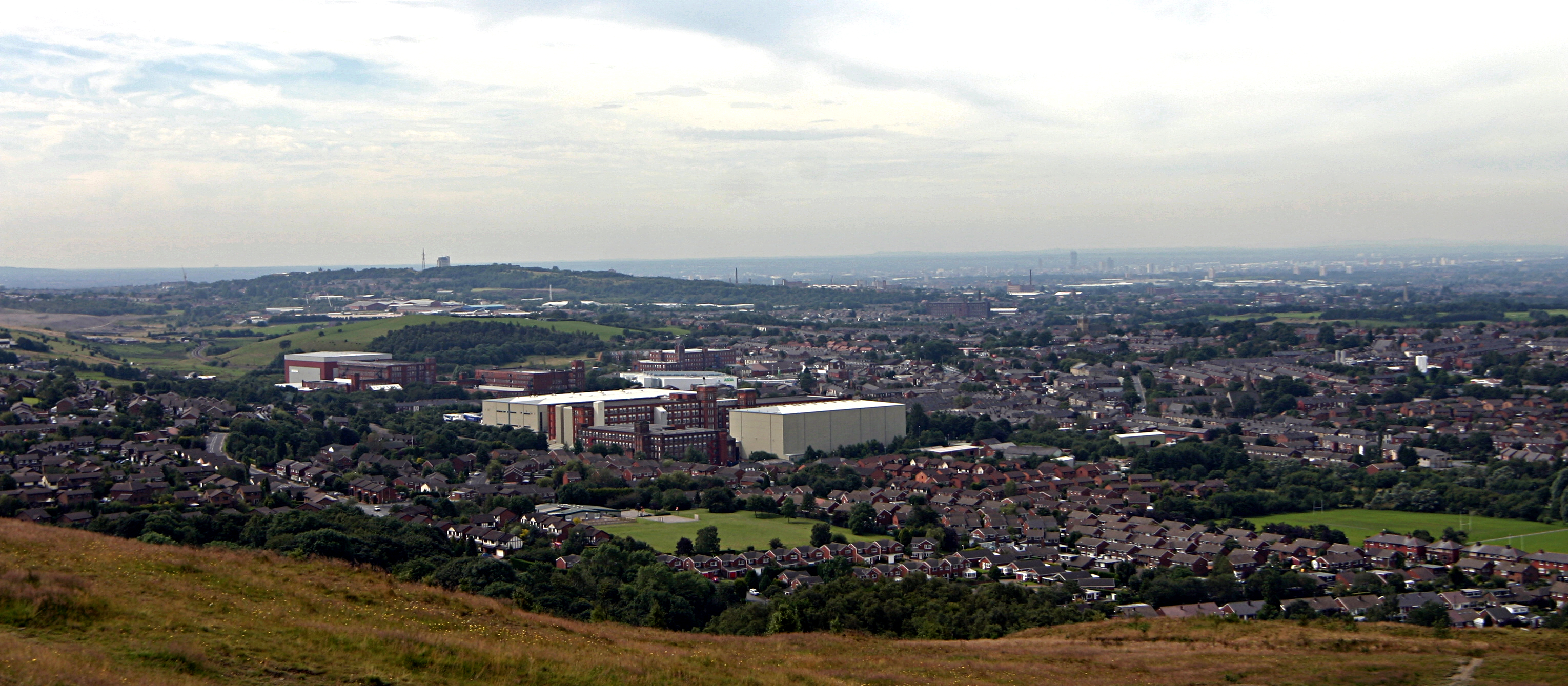 Shaw and Crompton is in the foreground with Oldham/Oldham Edge to the left, Royton to the right with Chaddeton/Failsworth/Manchester rolling back in the distance.